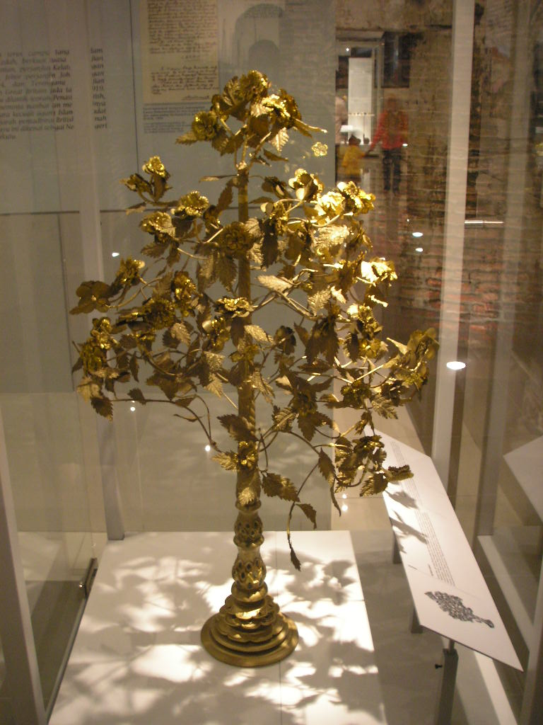 The Bunga Mas (translates as Golden Flowers) was a tribute sent every three years to the Siamese government in Bangkok, as a symbol of friendship by the Malay rulers of the northern states of the Peninsula (Kedah, Kelantan, Terengganu and Patani). The sending of the Bunga Mas began in the 14th century as a colourful ceremonial presentation including four spears with gilded shafts, a kris encrusted with gems, a spitton, a box, an arrangement of betel leaves and two rings. In return, the King of Siam made gifts of equal value. The sending of the Bunga Mas stopped at the end of the 19th century.